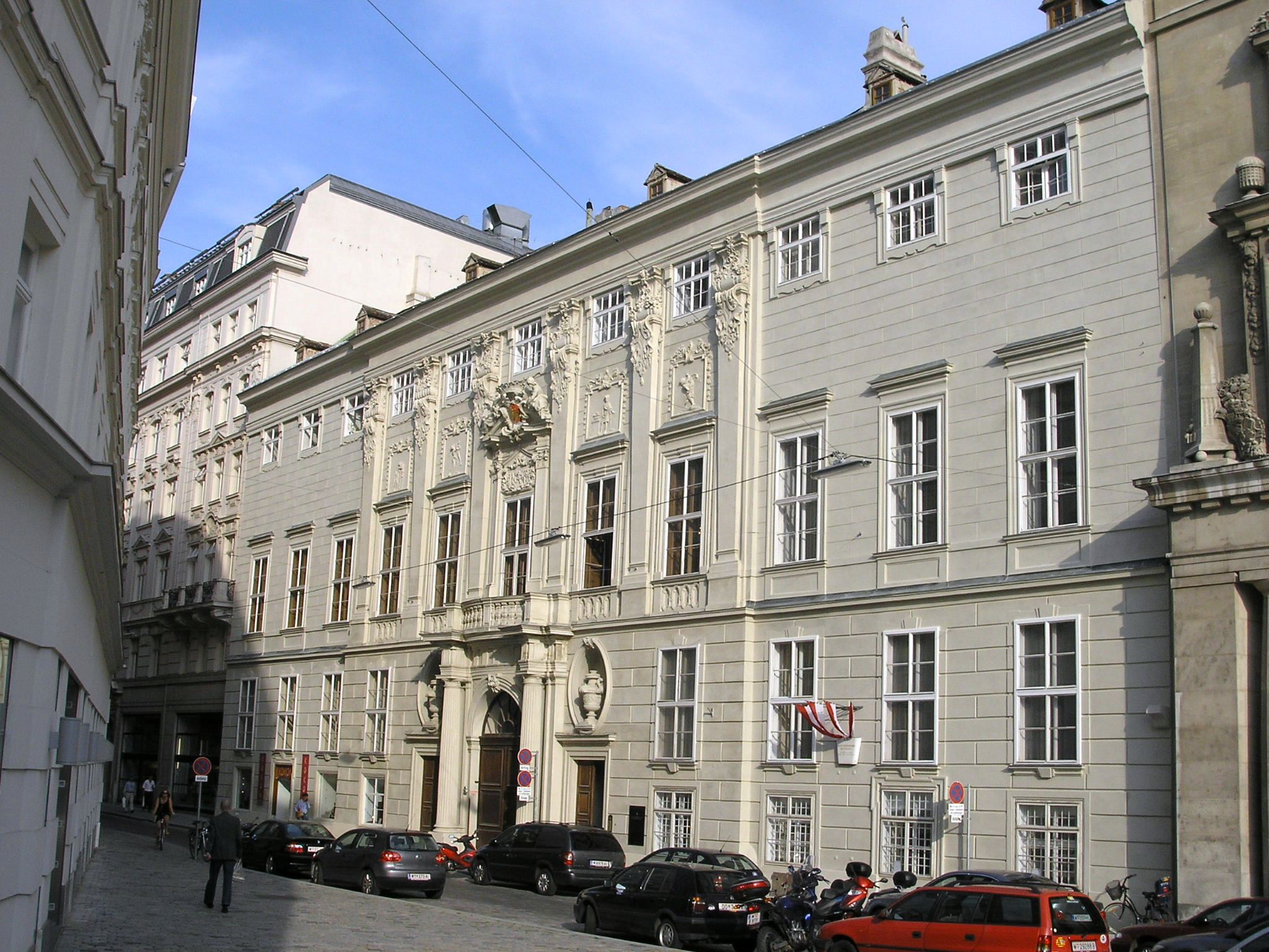 Palais Schönborn-Batthyány in Vienna, Renngasse 4, close to Freyung